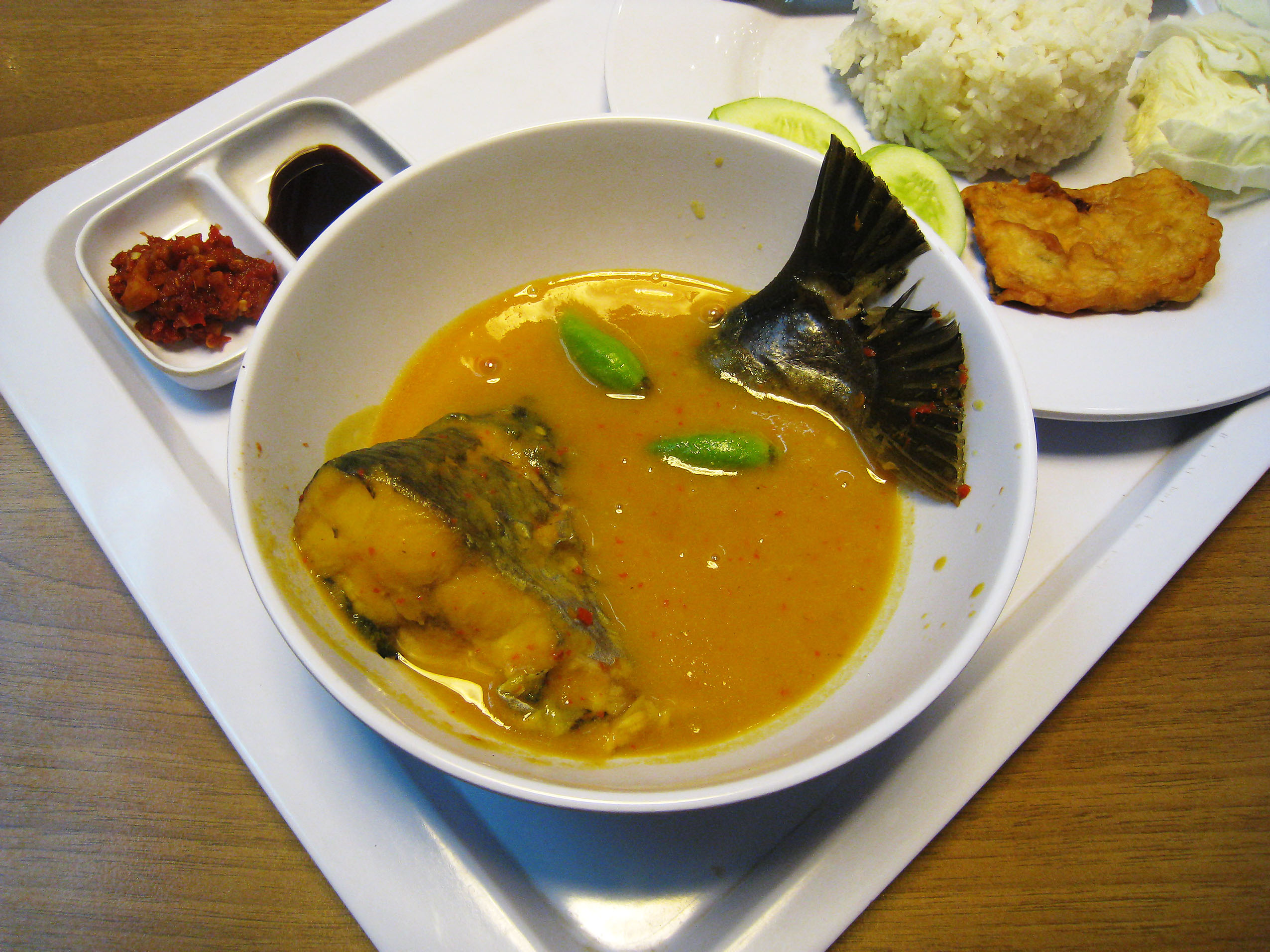 Tempoyak Ikan Patin, pangasius catfish served in sweet and spicy tempoyak sauce, a fermented durian-based sauce. Specialty of Palembang city, South Sumatra. Served at a Palembang food stall at Food Colony Foodcourt, Atrium Senen Plaza, Central Jakarta, Indonesia.